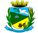 Coat of arms of the city of Santo Antônio do Planalto, Rio Grande do Sul, Brazil.